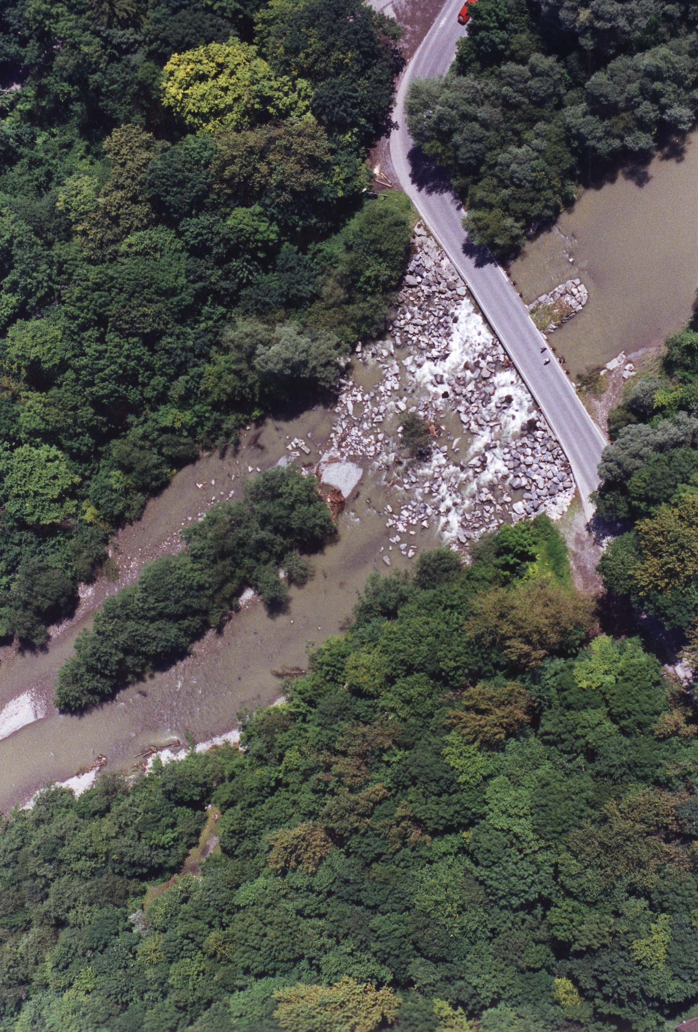 Dornbirner Ach ford in Dornbirn, Austria. Courtesy of the Polizeiinspektion Dornbirn. Picture taken from Libelle helicopter of the austrian Ministry of the Interior.